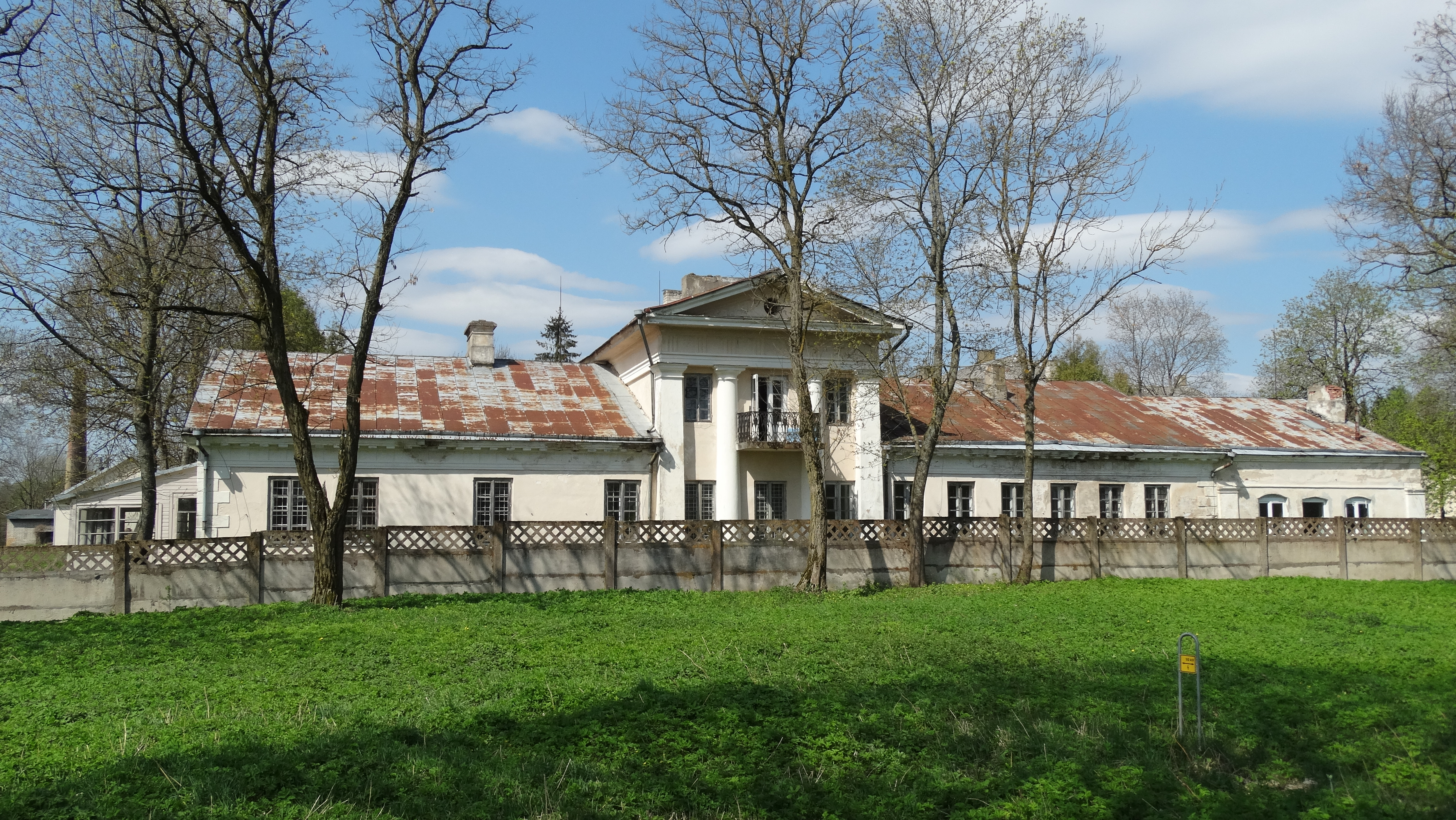 Manor in Čiobiškis, Širvintos District, Lithuania